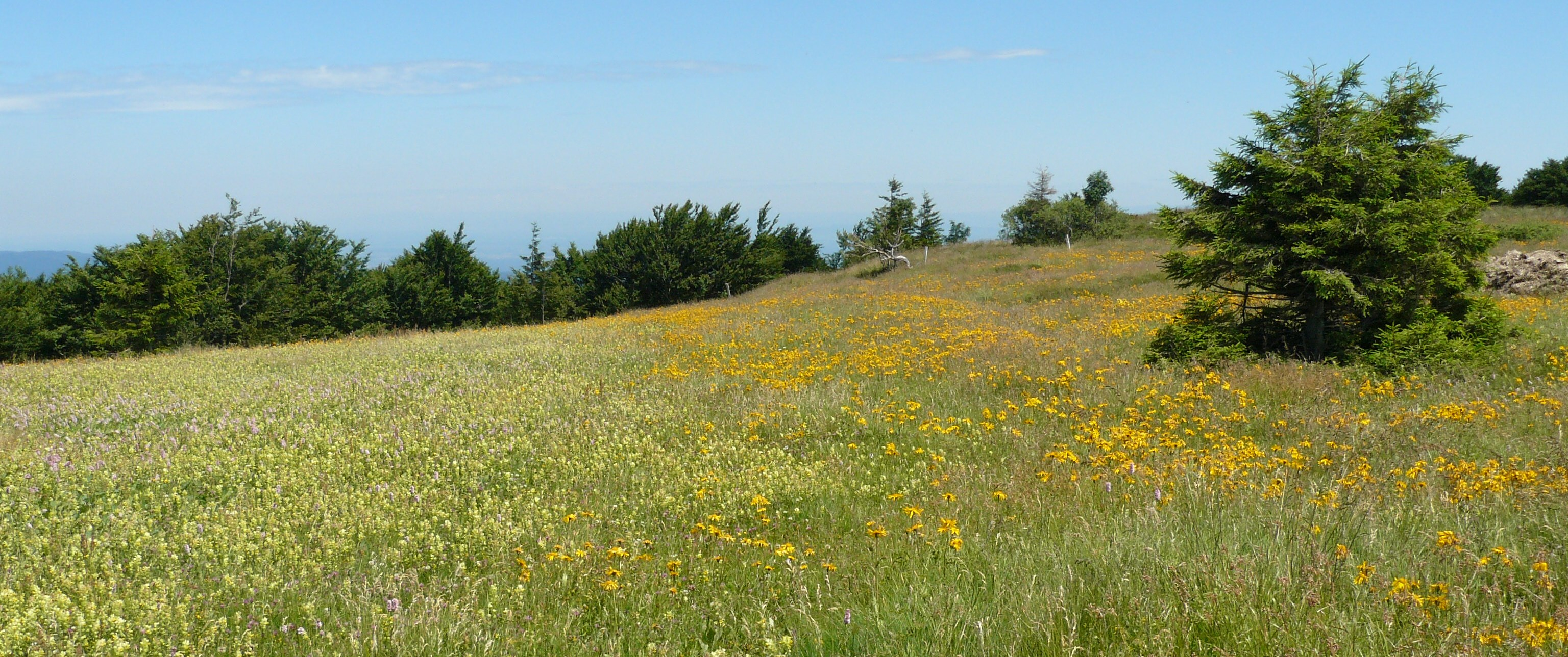 Agricol impact on Arnica montana ; left : Rhinanthus alectorolophus, right : Arnica montana ; Markstein, Vosges's montains, Alsace, France, July 2008